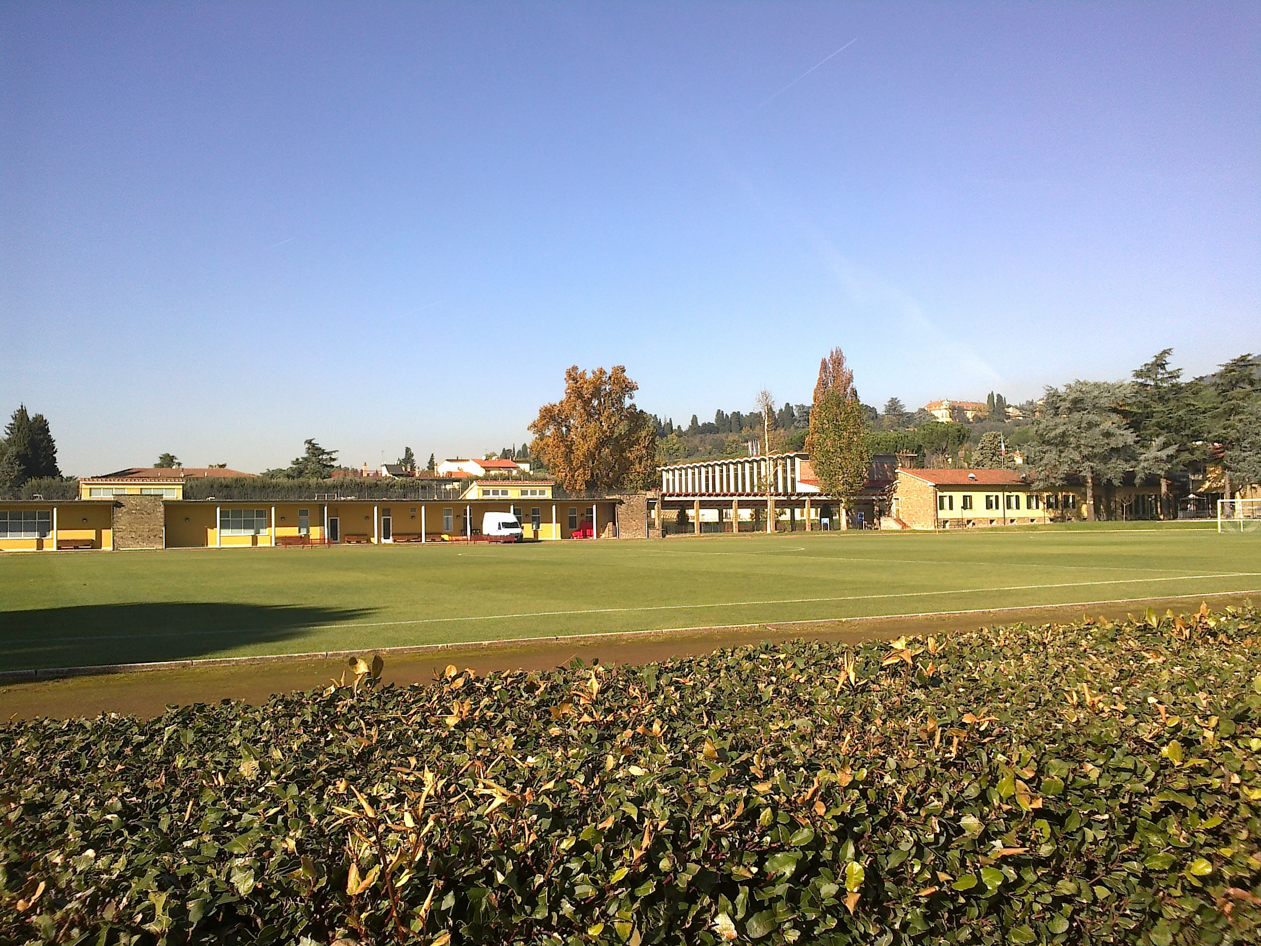 Centro Tecnico Federale FIGC as seen from one of the football fields.